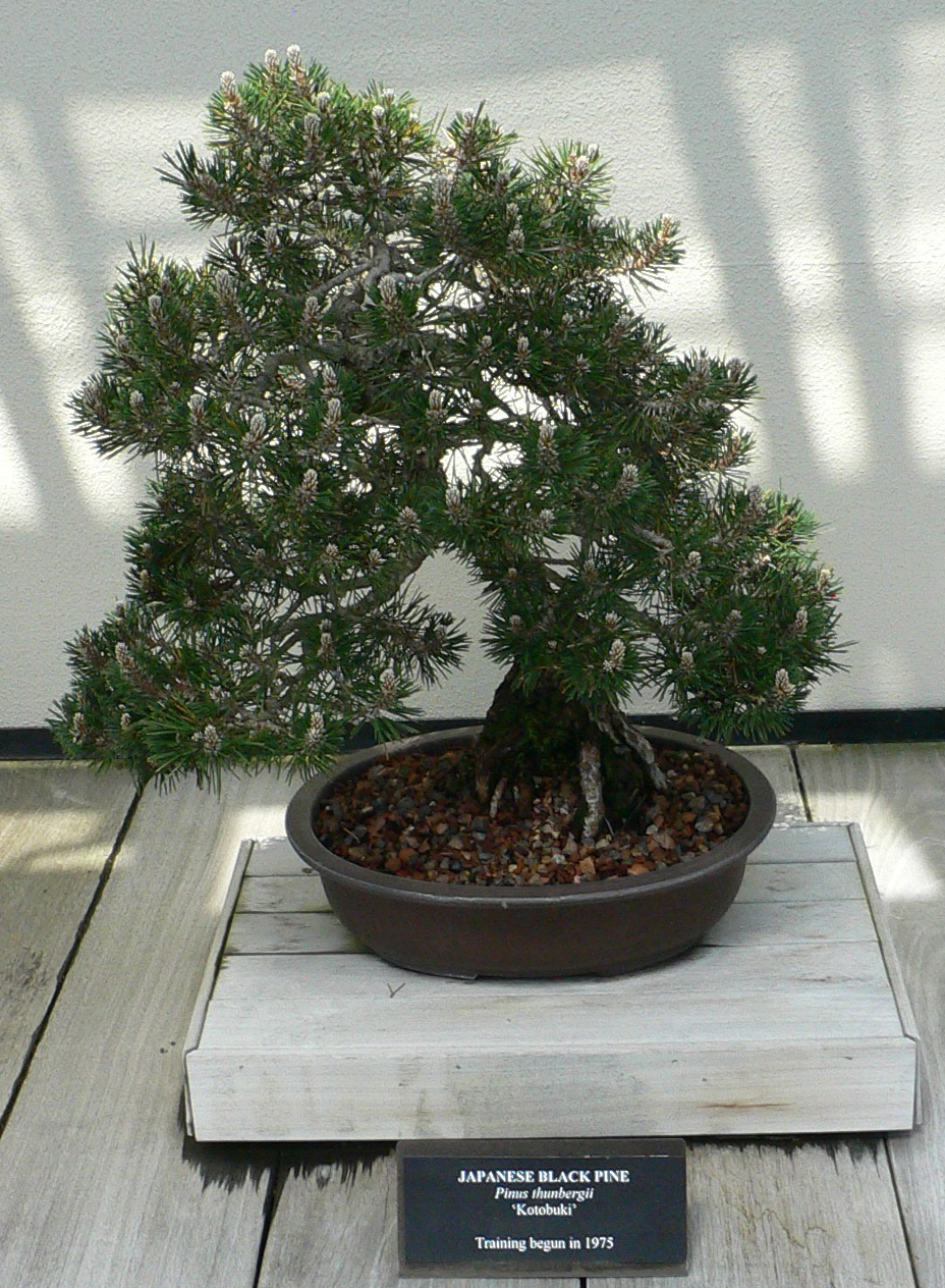 Pictures taken by myself at Longwood Gardens